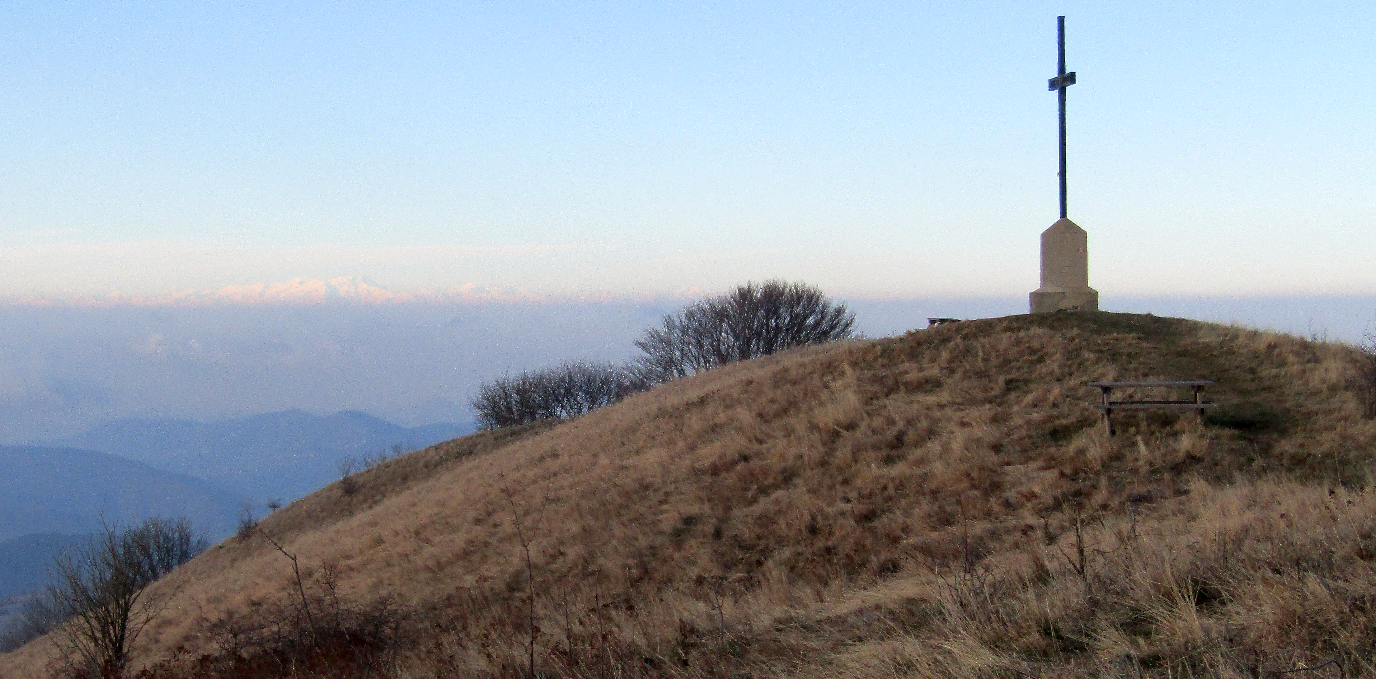 Summmit of Monte Buio (Ligurian Apennine) and, on the left, the Monte Rosa(Pennine Alps)